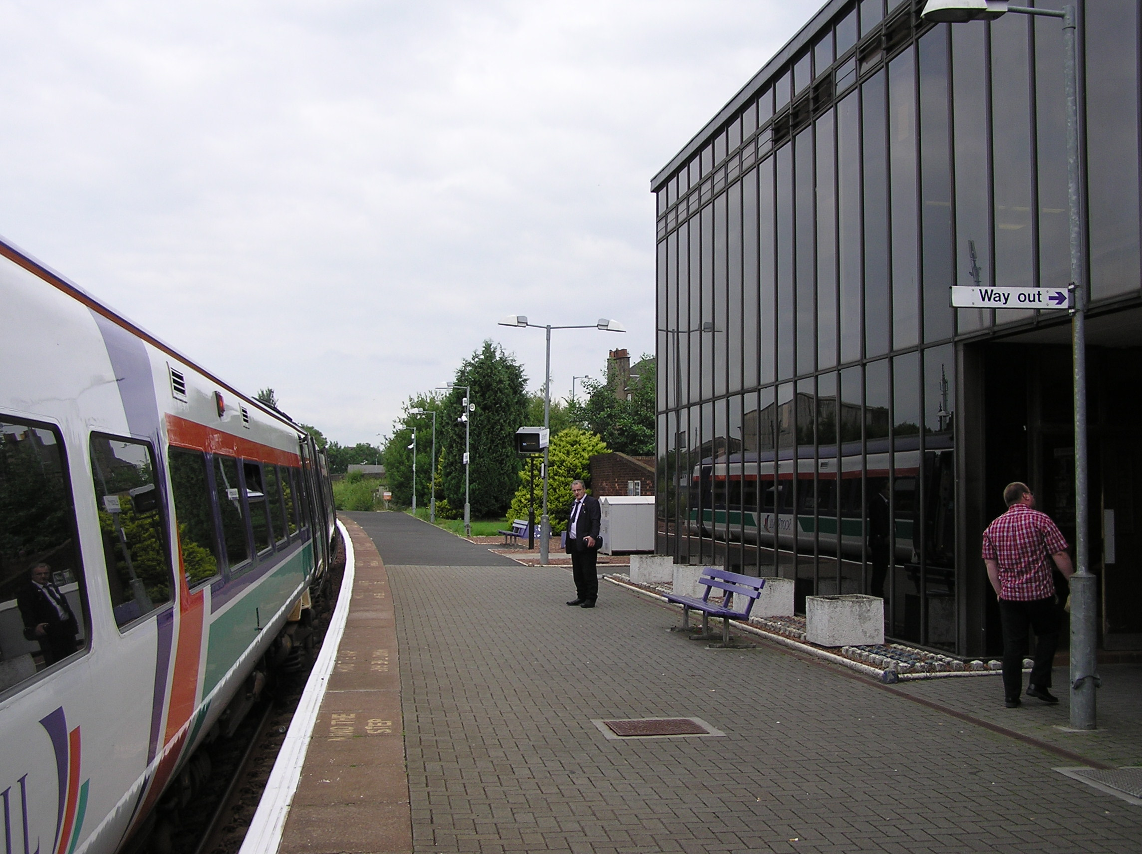 The front of Larbert railway station in Larbert, Scotland. Photo taken by Finlay McWalter on the 7th of August 2004.